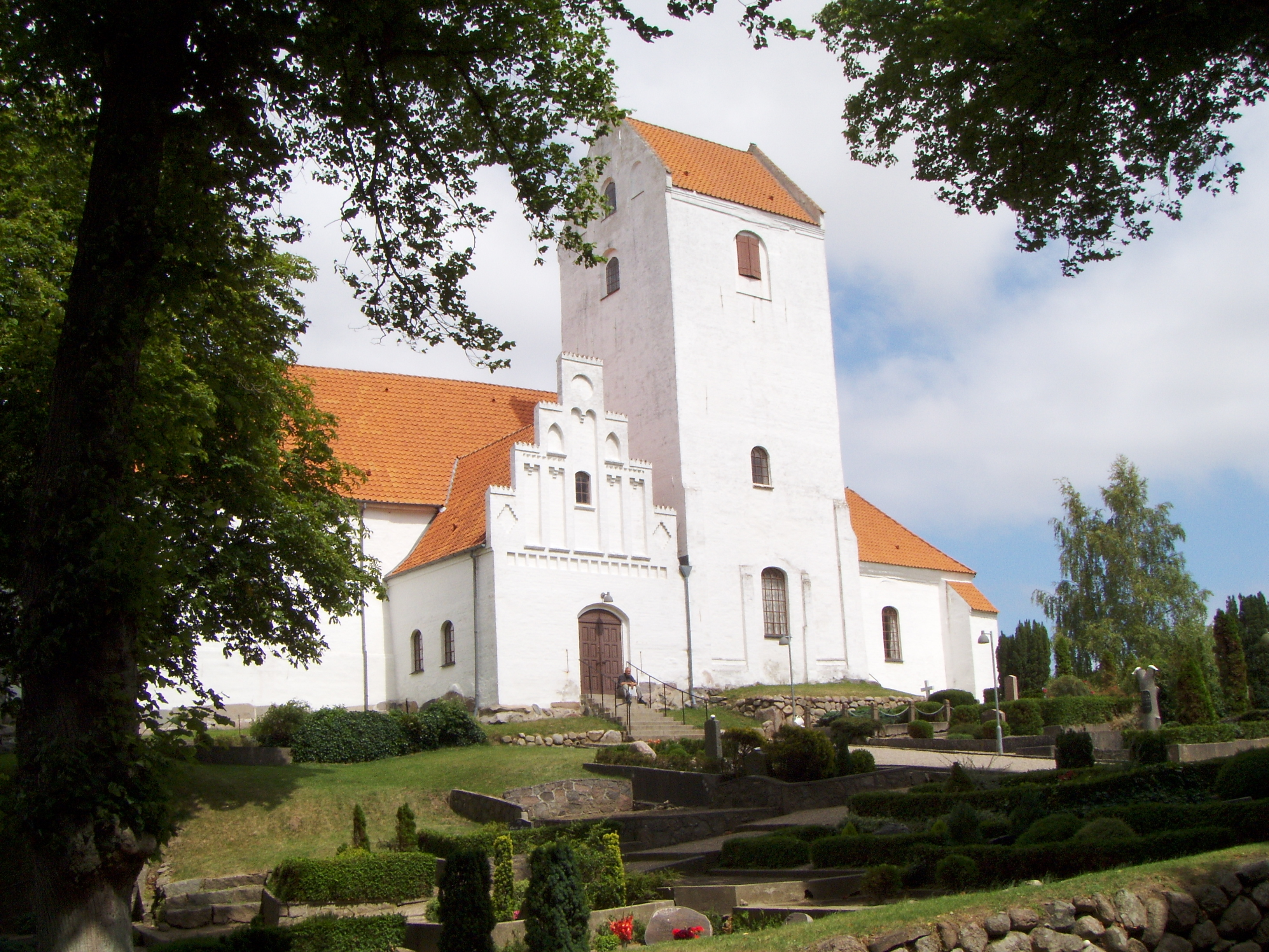 Humble Church, Diocese of Fyn, Denmark